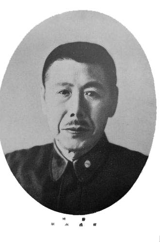 Kan Chaoxi (1888-1952)